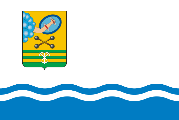 Flag of Petrozavodsk (Karelia)